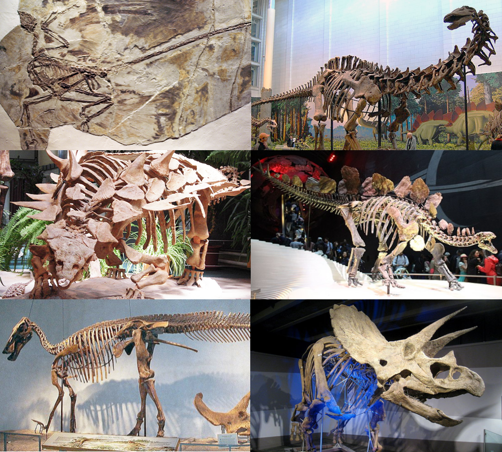 A collection of fossil dinosaur skeletons. Clockwise from top left: Microraptor gui, Apatosaurus louisae, Stegosaurus stenops, Triceratops horridus, Edmontosaurus regalis, Gastonia burgei. This is a collection of six different works already found in Wikimedia Commons: File:Museum_of_Science,_Boston,_MA_-_IMG_3203.JPG File:Louisae.jpg File:Stegosaurus Senckenberg.jpg File:DNMH_Edmontosaurus.jpg File:Skelett_von_Gastonia.JPG File:MicroraptorGui-PaleozoologicalMuseumOfChina-May23-08.jpg All of them are either under a free license already in Wikimedia Commons or in the public domain